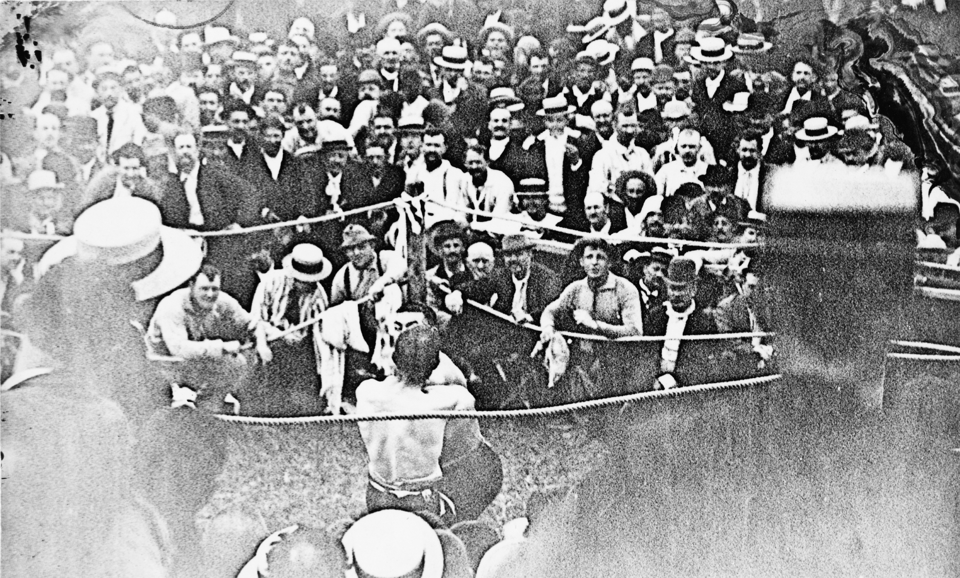 John L. Sullivan - Jake Kilrain fight, 1898. Library of Congress description: "Sullivan-Kilrain boxing match, Richburg, Miss."